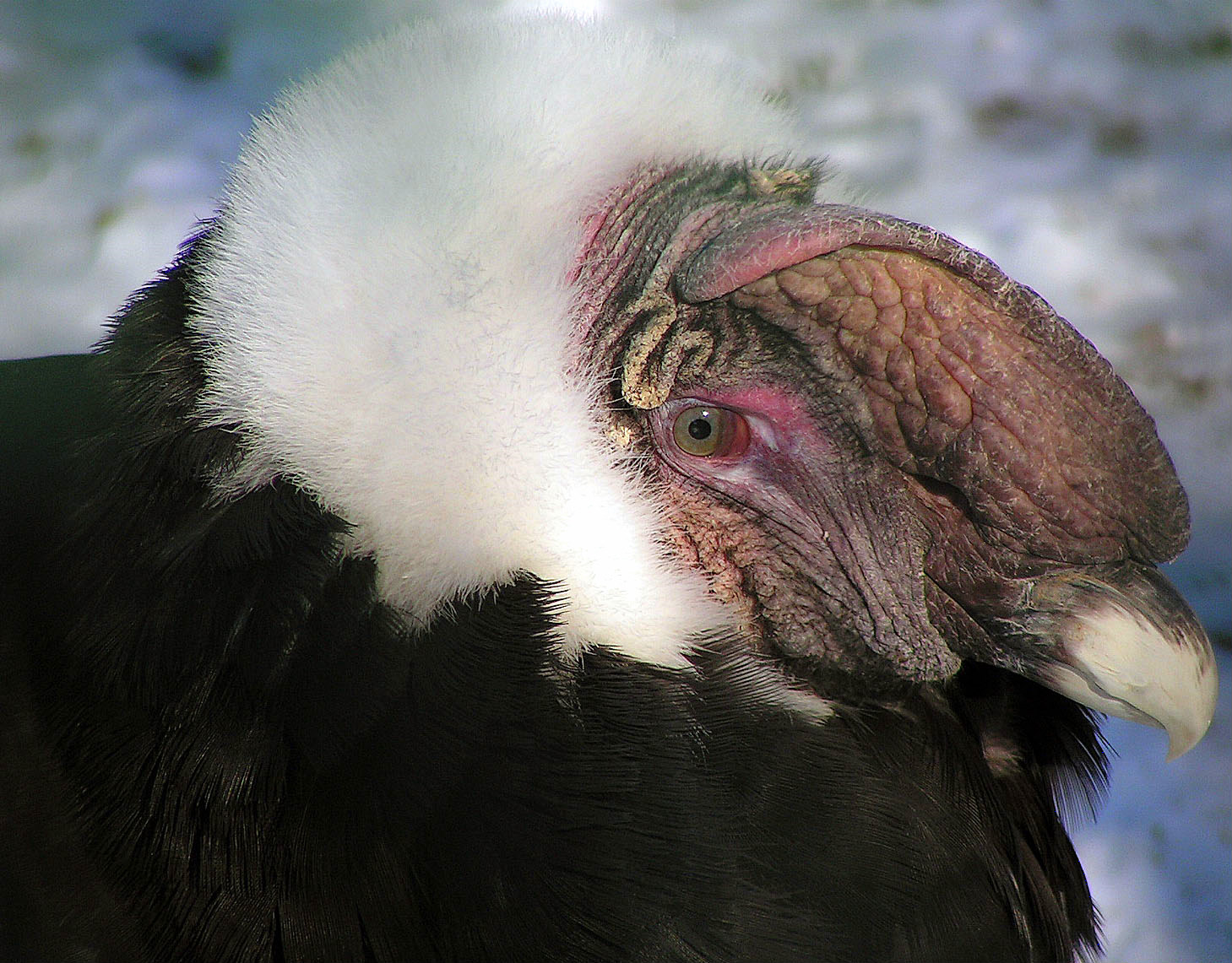 Male Andean Condor taken at Phila. Zoo The Andean Condor (Vultur gryphus) is a species of South American bird in the New World vulture family Cathartidae and is the only member of the genus Vultur. Found in the Andes mountains and adjacent Pacific coasts of western South America, it is the largest flying land bird in the Western Hemisphere. It is a large black vulture with a ruff of white feathers surrounding the base of the neck and, especially in the male, large white patches on the wings. The head and neck are nearly featherless, and are a dull red color, which may flush and therefore change color in response to the bird's emotional state. In the male, there is a wattle on the neck and a large, dark red comb or caruncle on the crown of the head. Unlike most birds of prey, the male is larger than the female. The condor is primarily a scavenger, feeding on carrion. It prefers large carcasses, such as those of deer or cattle. It reaches sexual maturity at five or six years of age and roosts at elevations of 3,000 to 5,000 m (10,000 to 16,000 ft), generally on inaccessible rock ledges. One or two eggs are usually laid. It is one of the world?s longest-living birds, with a lifespan of up to 50 years. The Andean Condor is a national symbol of Argentina, Bolivia, Chile, Colombia, Ecuador, and Peru, and plays an important role in the folklore and mythology of the South American Andean regions. The Andean Condor is considered near threatened by the IUCN. It is threatened by habitat loss and by secondary poisoning from carcasses killed by hunters. Captive breeding programs have been instituted in several countries.